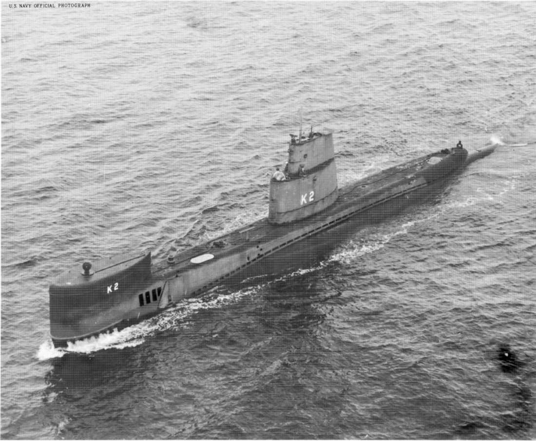 Bass (SSK-2) underway. Navy photo per navsource